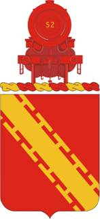 From the US Army's Institute of Heraldry